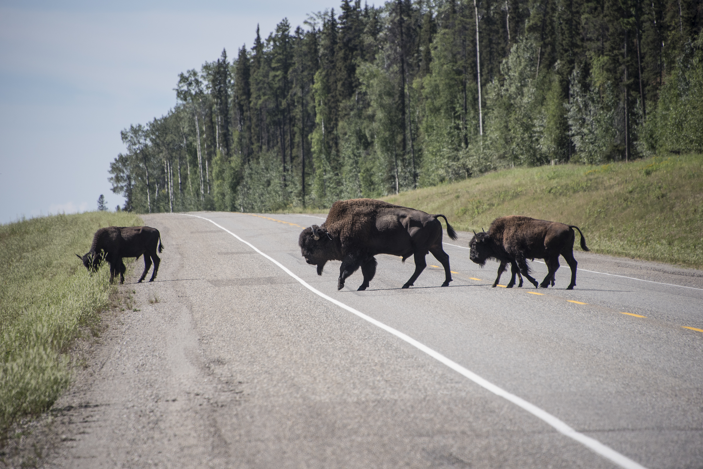 10 Miles (approx) West of Portage Brule Rapids Ecological Reserve on B.C. Highway 97